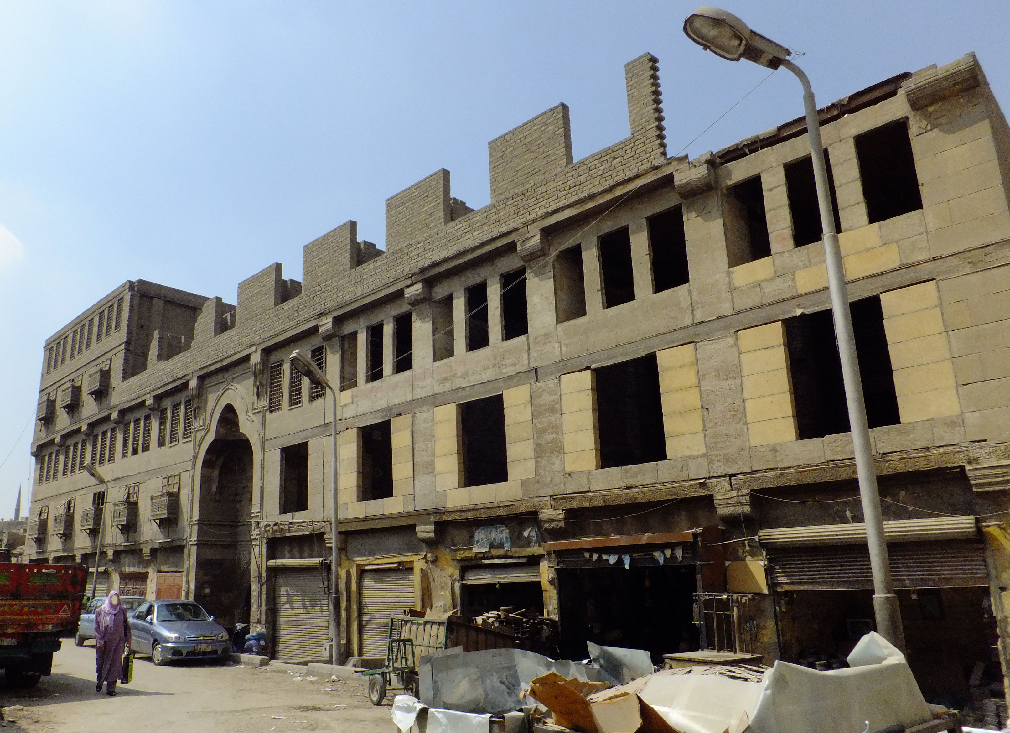 Overall view of the street facade of the wikala of Sultan Qaytbay, near Bab al-Nasr. Picture taken in 2012 (before subsequent restorations began).